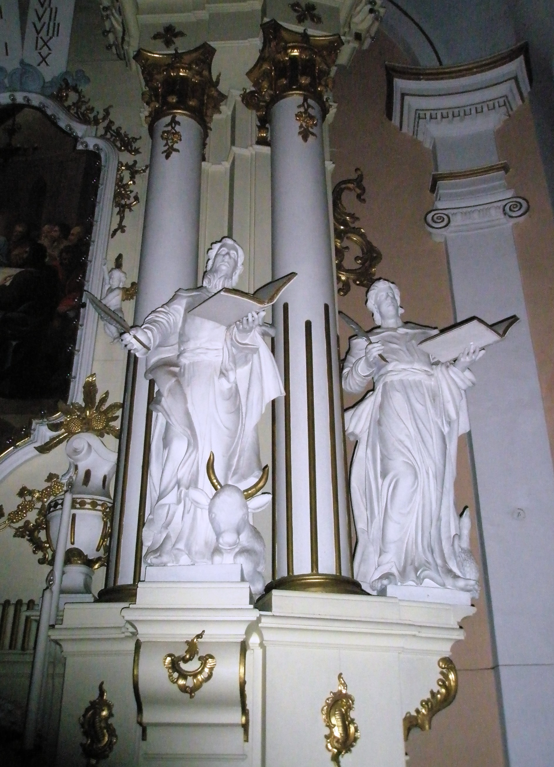 Altar of the Lutheran Church in Bystřice nad Olší, Frýdek-Místek District, Czech republic (detail)